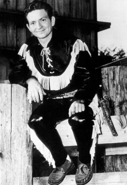 Publicity portrait of Willie Nelson for Vancouver's radio station KVAN. Nelson hosted the show Western Express, known under the nicknames "Wee Willie Nelson" and "Texas Willie Nelson".